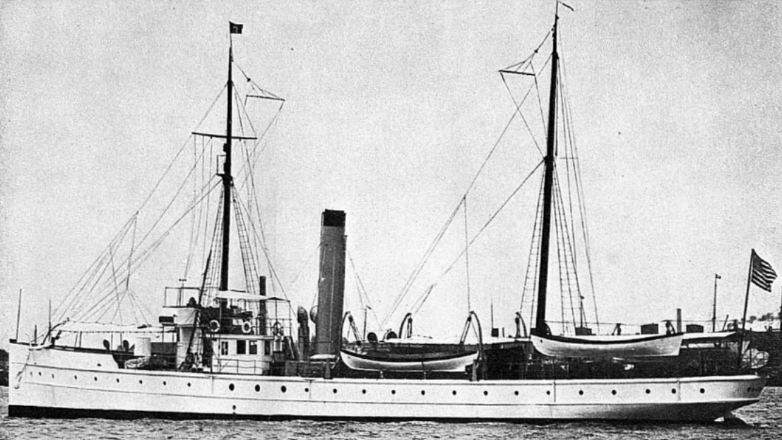 C&GS Ship A.D. Bache of 1901 with specifications From image: Composite steam vessel of 472 tons displacement, and 252 net tons; registered length 153.2 feet, breadth 20.2 feet, draft 10 feet; indicated horsepower 400, speed 10.5 knots; coal capacity 96 tons; compliment 9 officers and 42 men. Built at Shooters Island, N.Y., in the year 1901. Present duty, offshore hydrography on the South Atlantic coast of the United States.